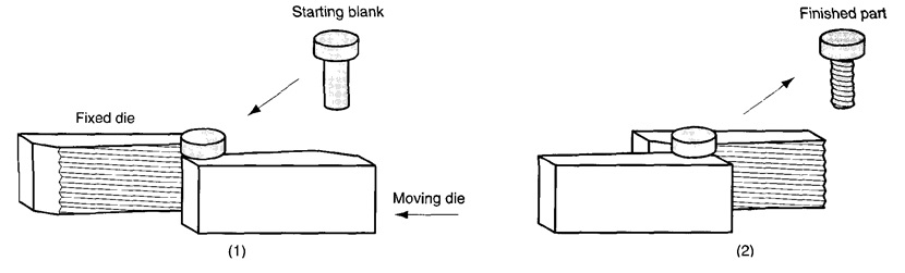 نورد رزوه